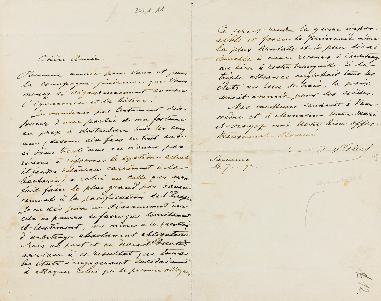 Alfred Nobel (1833–96) was a Swedish-born engineer and entrepreneur best known for inventing dynamite. At age 43, Nobel placed an advertisement in a newspaper stating: "Wealthy, highly-educated elderly gentleman seeks lady of mature age, versed in languages, as secretary and supervisor of household." An Austrian woman, Countess Bertha Kinsky, applied for and won the position. The countess worked for Nobel only briefly before returning to Austria to marry Count Arthur von Suttner. Bertha von Suttner became one of the most prominent international peace activists of the late 19th–early 20th centuries, the author of a famous book Die Waffen nieder (Lay down your arms), published in 1889, and vice president of the International Peace Bureau. Nobel and von Suttner remained close friends and corresponded with each other for decades. In this letter, written in French and dated January 7, 1893, Nobel outlined to her his idea of establishing a prize for those who made important contributions to the cause of peace in Europe. Bertha von Suttner herself was awarded the Nobel Peace Prize in 1905, nine years after her friend’s death. The letter is preserved in the archives of the League of Nations in Geneva. The archives were inscribed on the UNESCO Memory of the World register in 2010. Awards; Correspondence; Letters; Memory of the World; Nobel Prizes; Peace